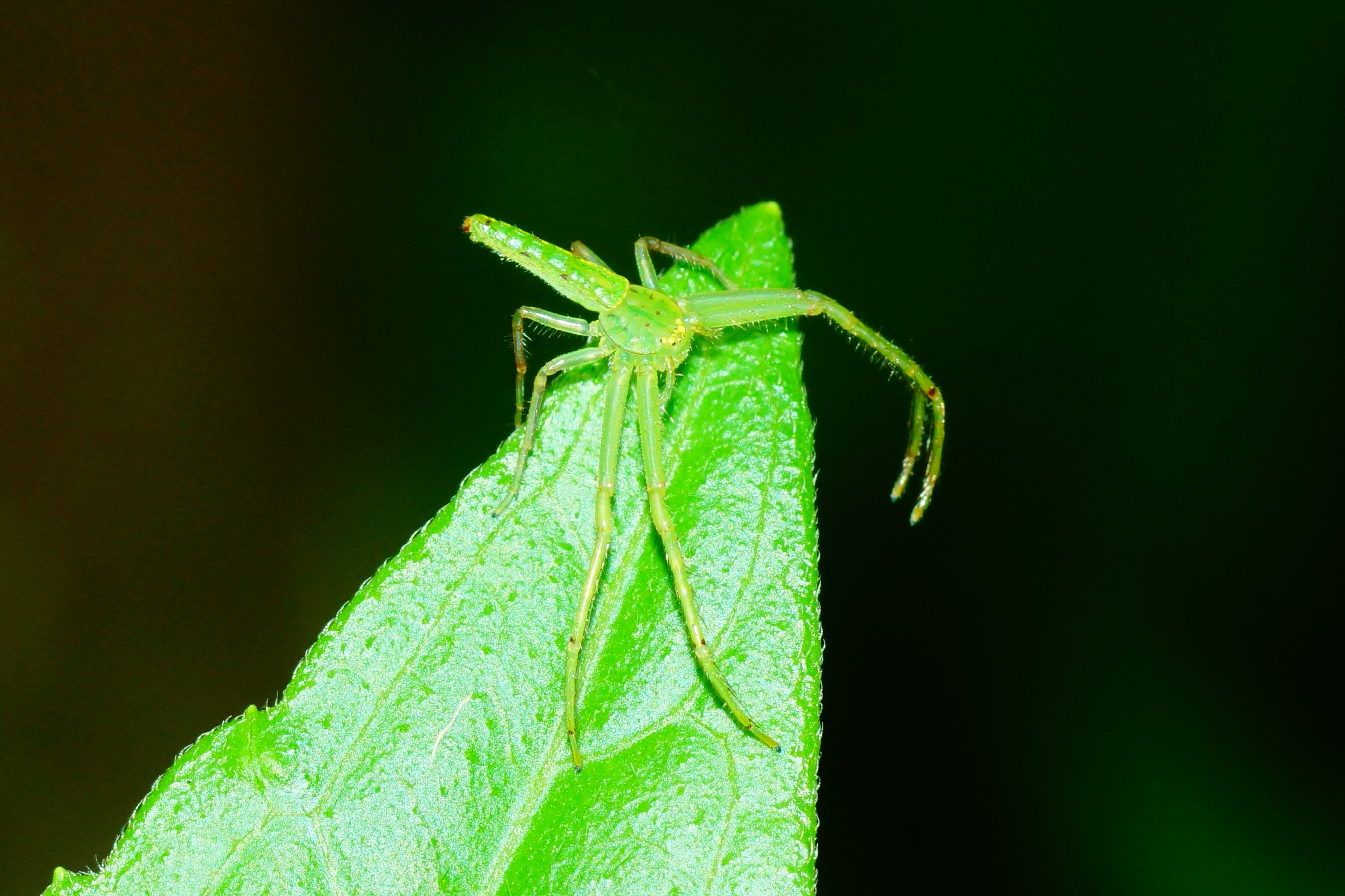 Oxytate virens